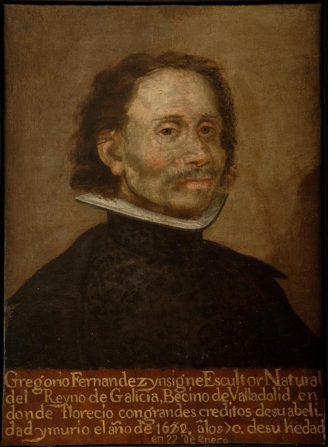 Portrait of the Spanish baroque sculptor, Gregorio Fernandez, actually exposed in the Museum Nacional de Escultura, in Valladolid (Spain)